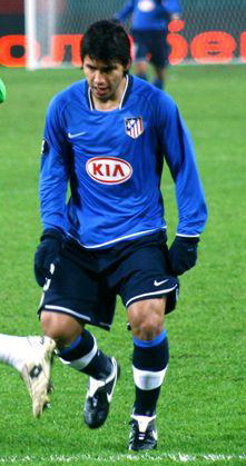 Sergio Agüero